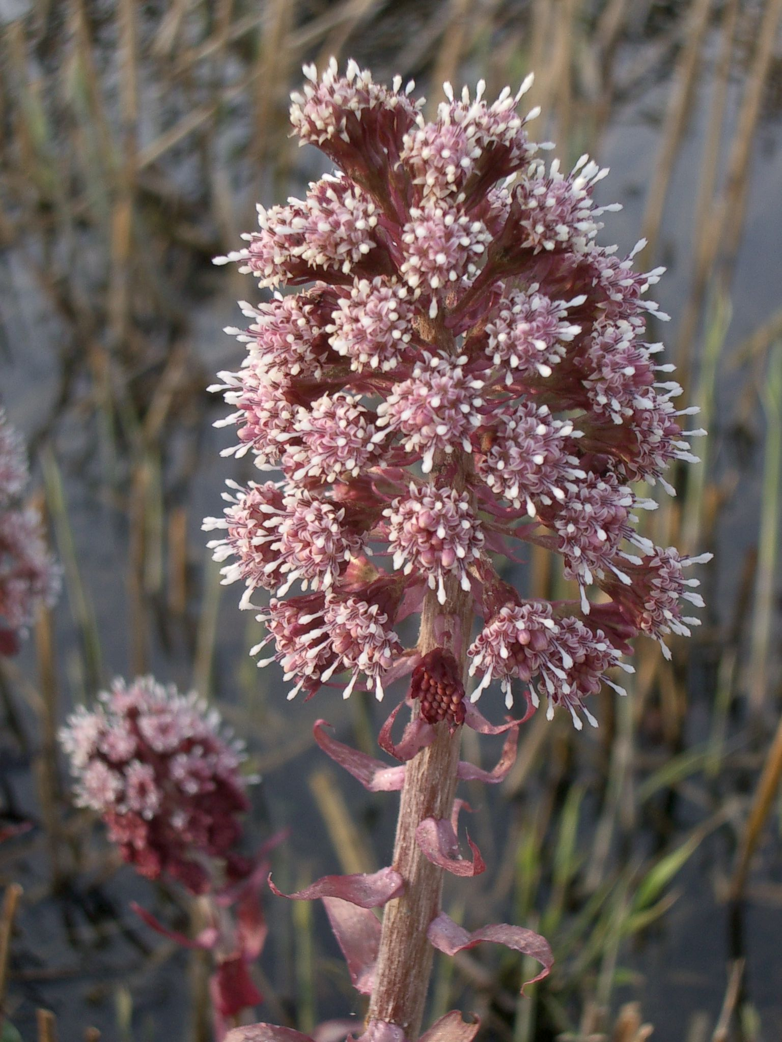 Description: Petasites paradoxus bloom. Starnberg.